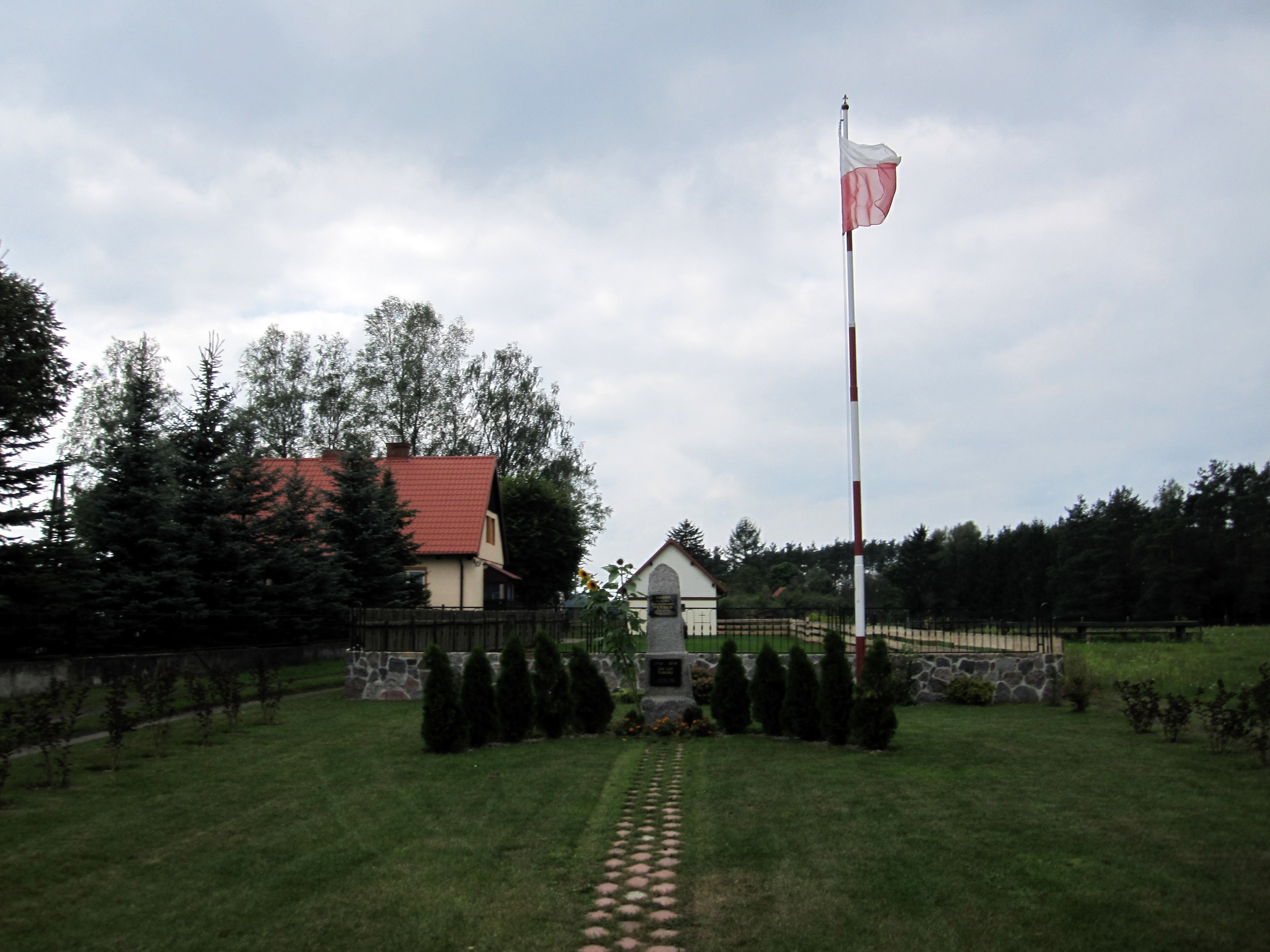 Monument in Turośl